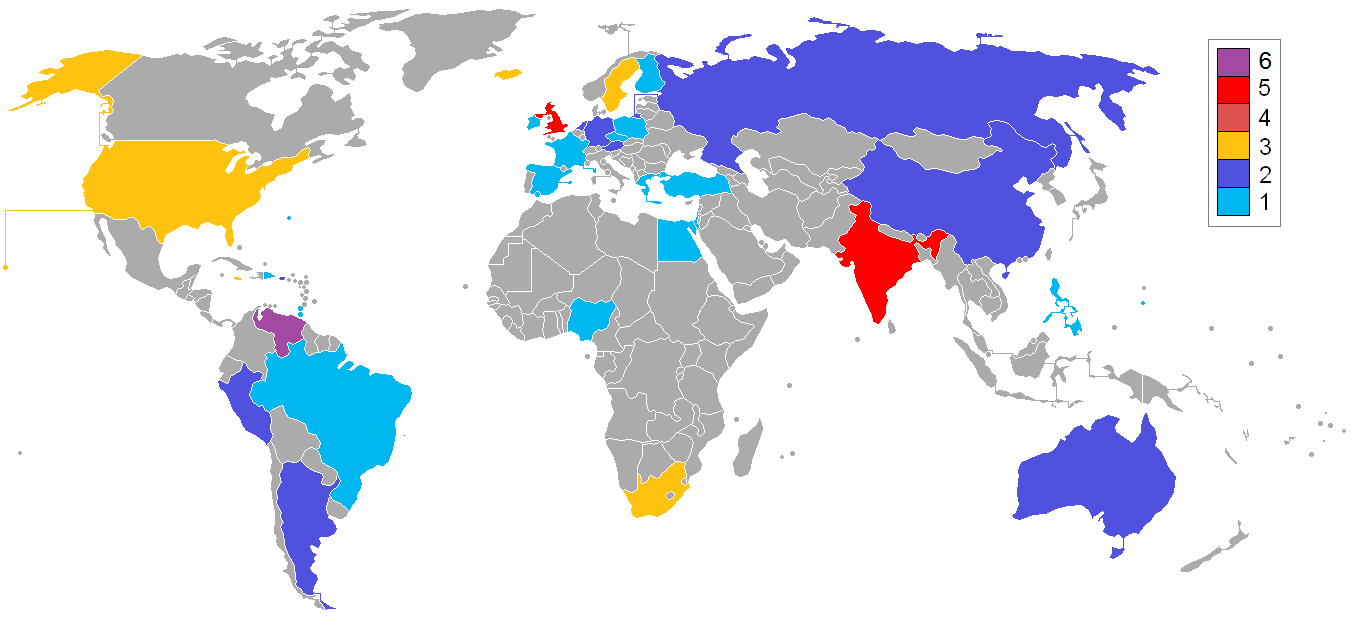 Miss World winners 1951-2009 by country